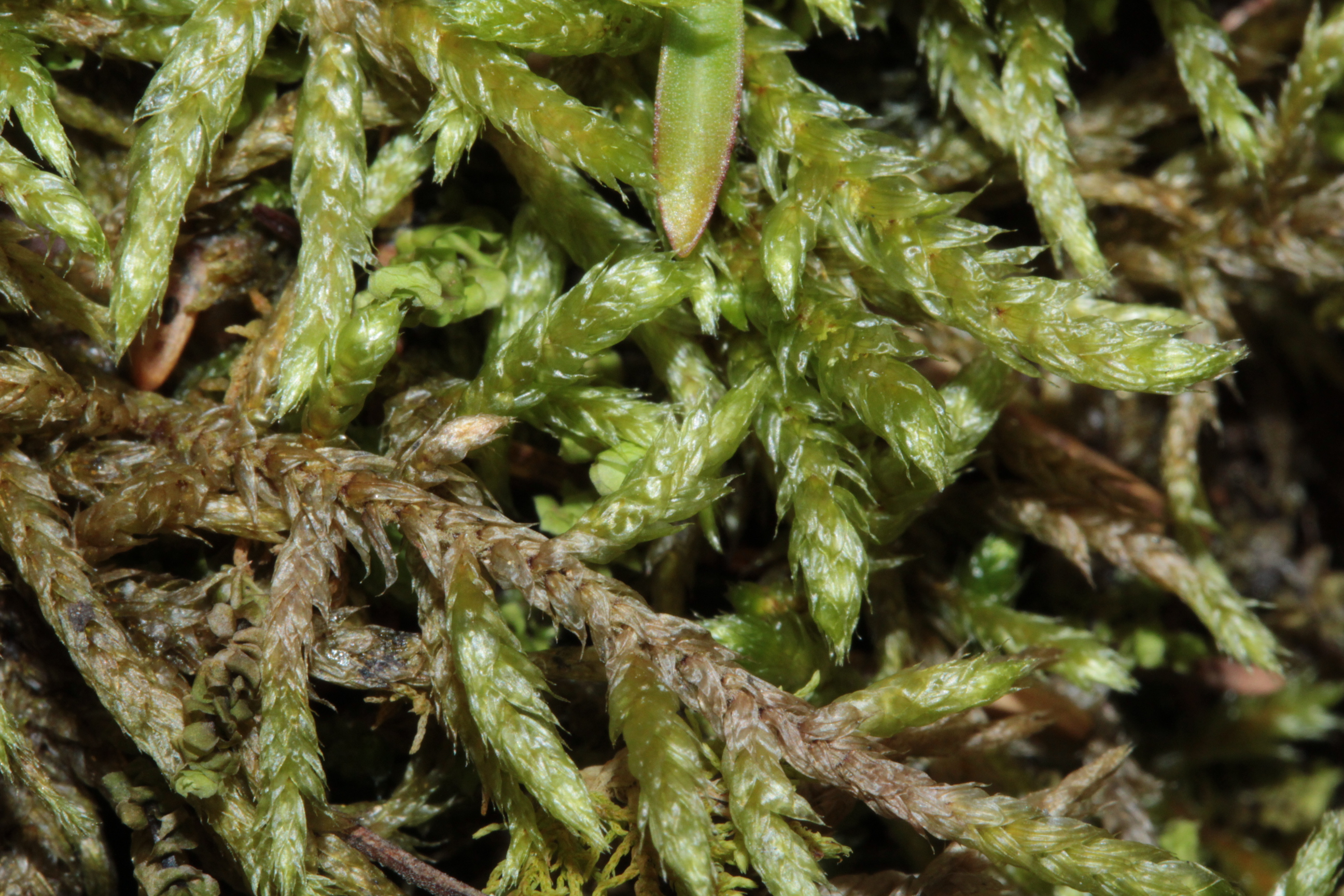 Hylocomiastrum pyrenaicum